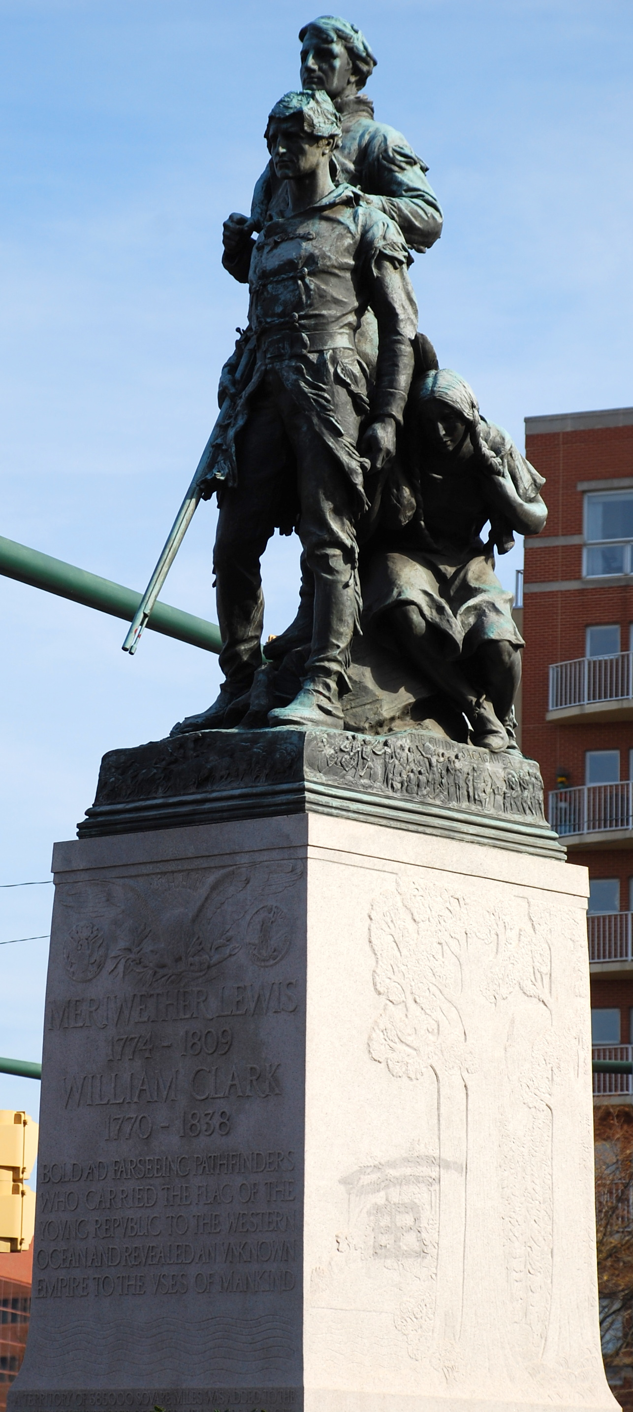 Meriwether and William Clark Lewis Sculpture